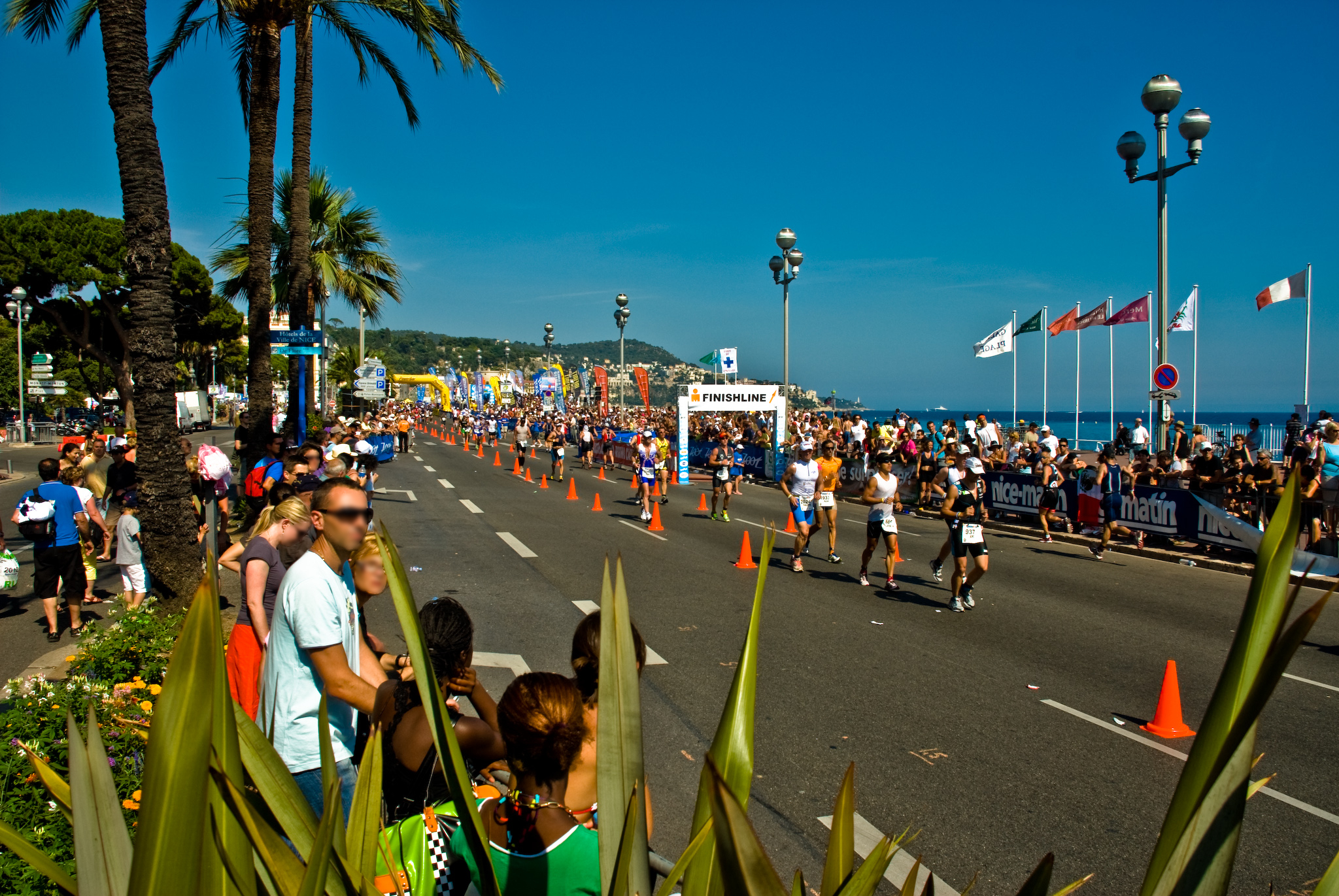 The 2009 Ironman France on the Promenade des Anglais in Nice, France.